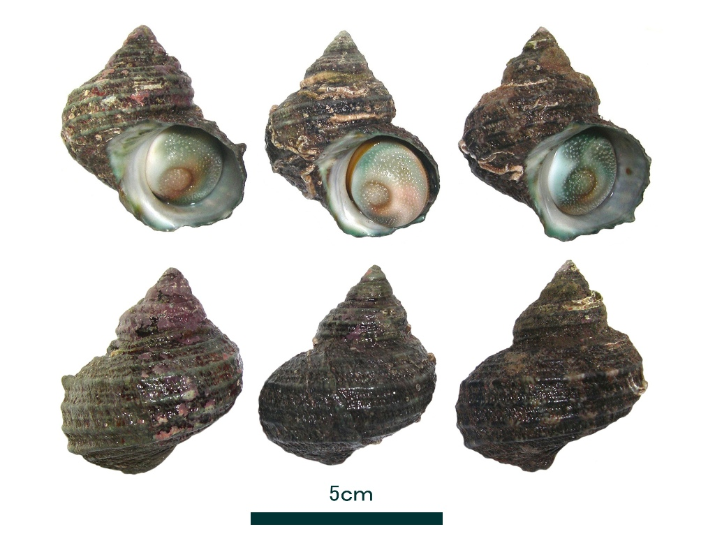 Turbo (Batillus) chinensis Ozawa et Tomida, 1995 (Gastropoda: Vetigastropoda: Turbinidae) harvested along the coast of China. ja: 中国沿岸で漁獲されたナンカイサザエ。